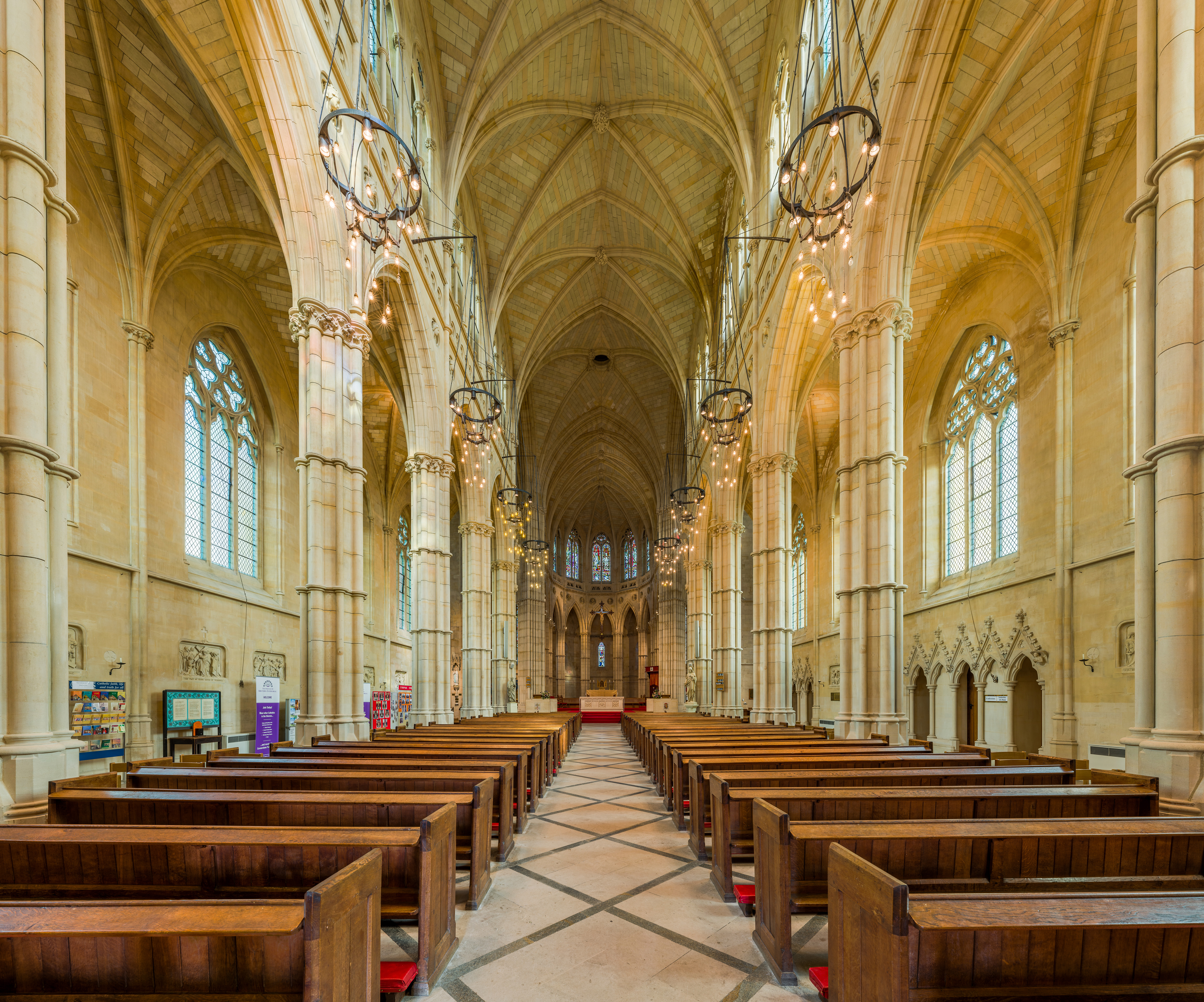 The nave of Arundel Cathedral looking east, in West Sussex, England.